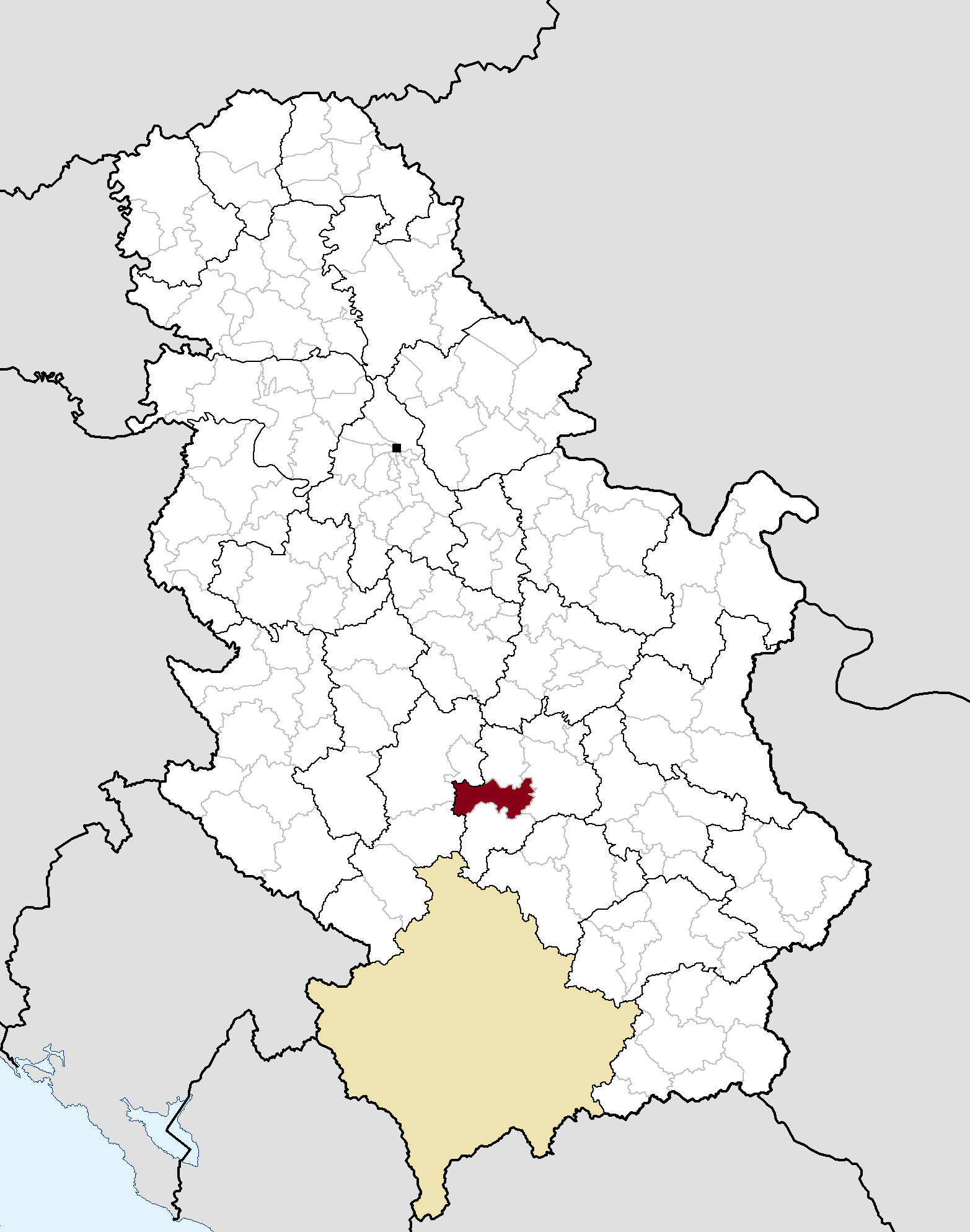 Municipal location in Serbia